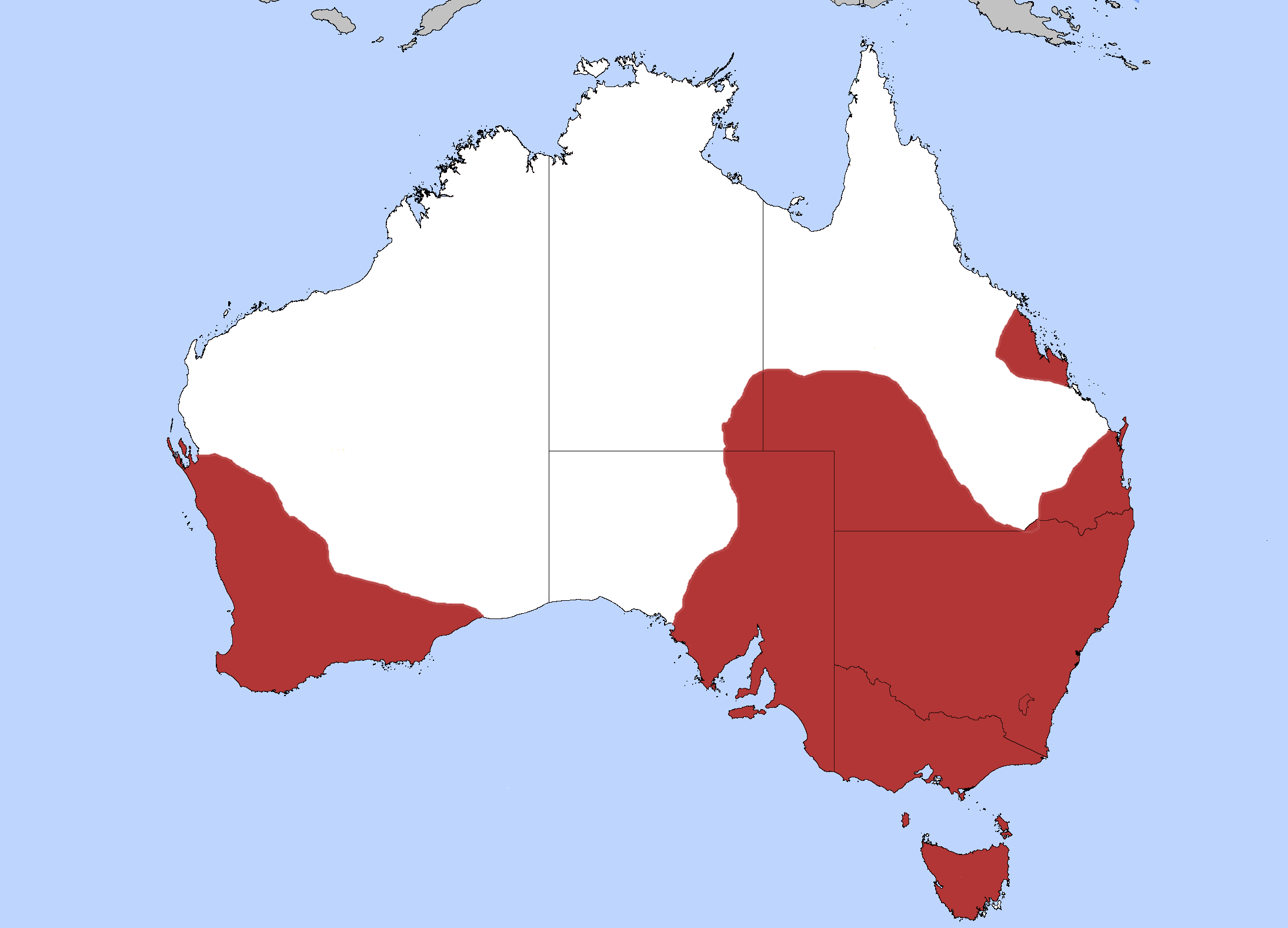 The Musk Duck's Distribution. Source: ?